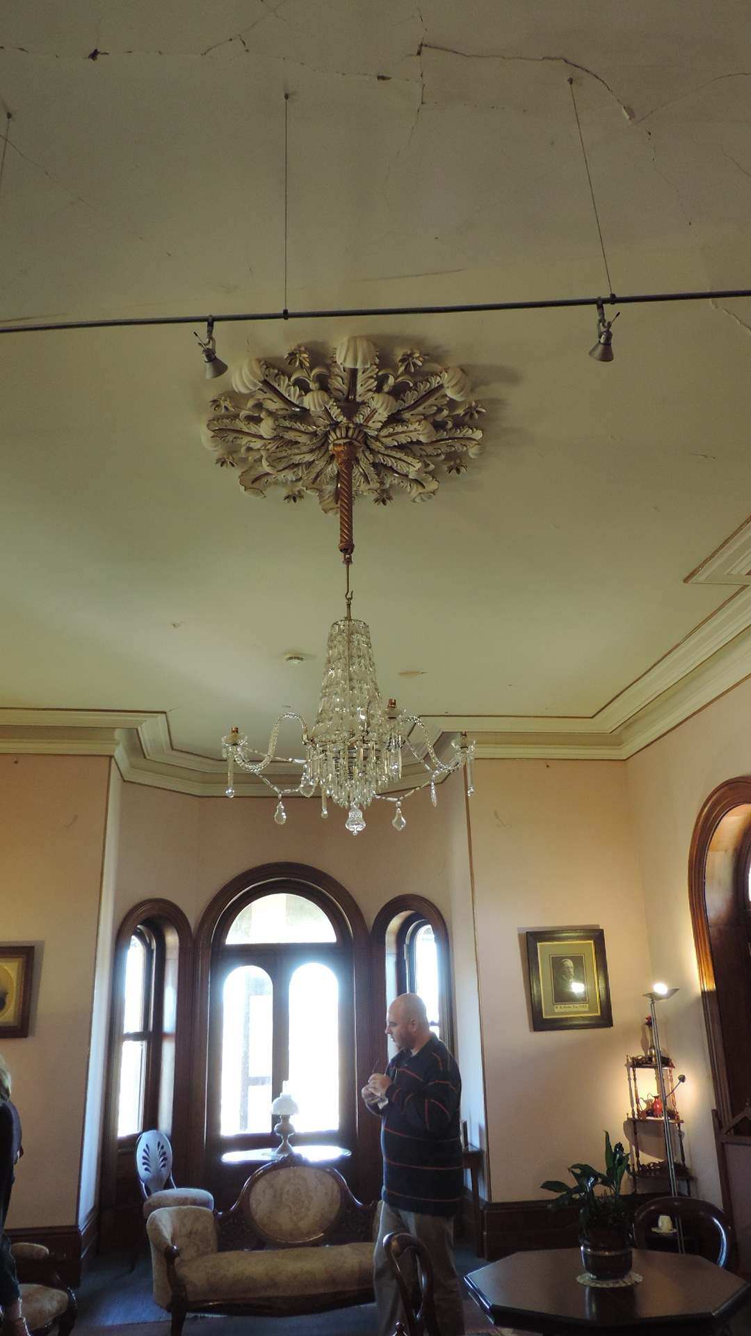 Glengallan Homestead, drawing room, 2015